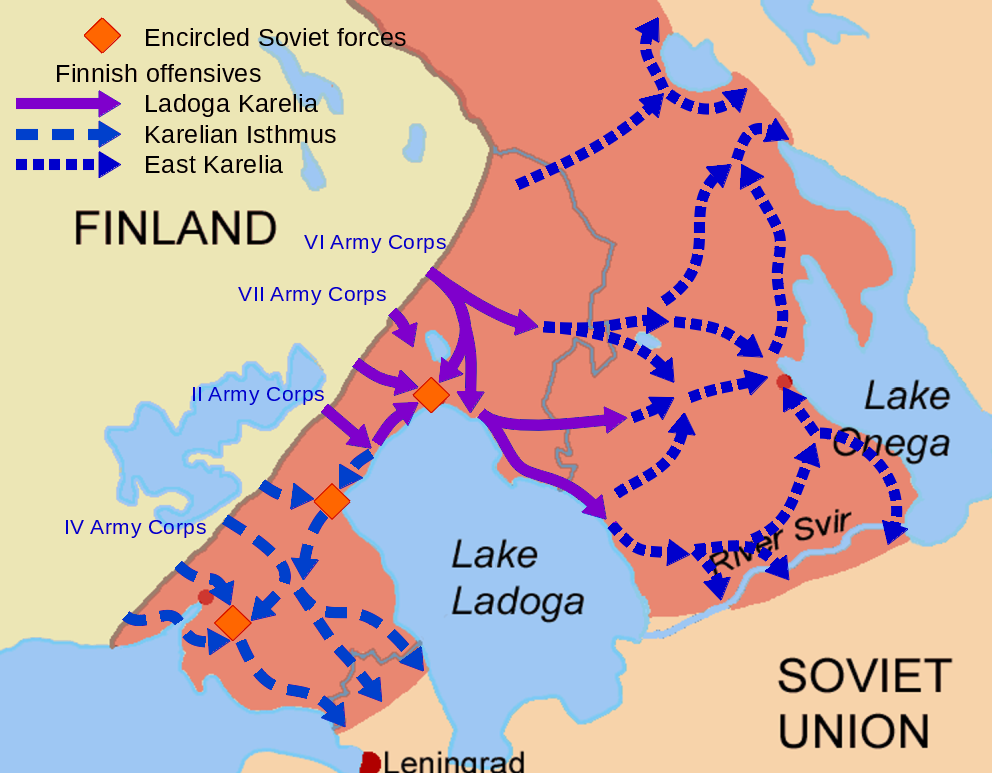 Map depicting the Finnish offensive operations in Karelia carried out in the Summer and Autumn of 1941 during the Continuation War. Base map originally by wikipedia user: Jniemenmaa